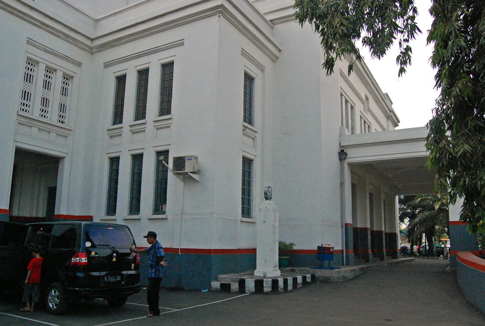 Tanjung Priok (TPK) train station at Jakarta. Right front corner.